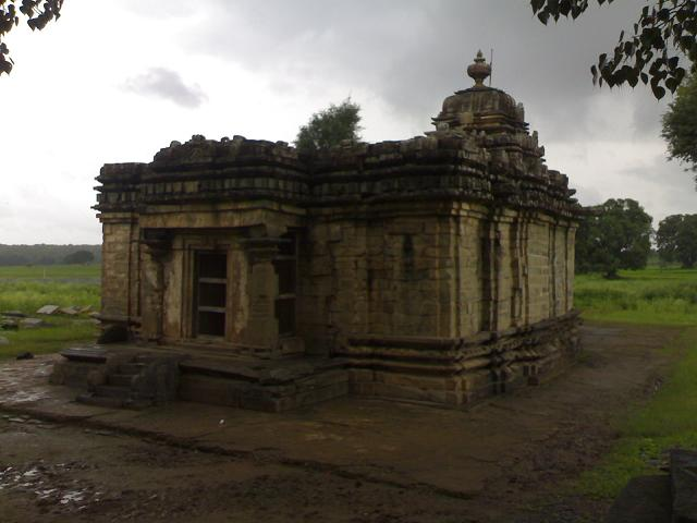 Tamboor Basavanna temple, near Kalghatgi Author and Source : Manjunath Doddamani, Gajendragad, Karnataka (North), India